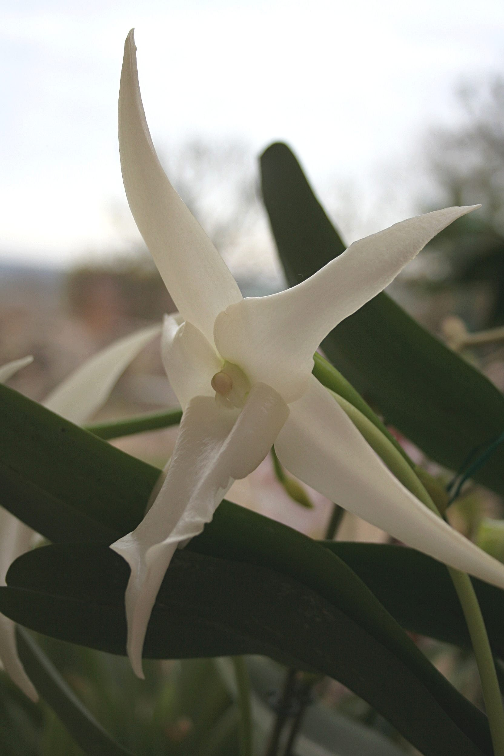 Angraecum sesquipedale photo by Jeffdelonge 07:46, 2 January 2007 (UTC) 2007-01-01 plant of 17 years cultivated in Gy (Haute-Saône) 70700 France